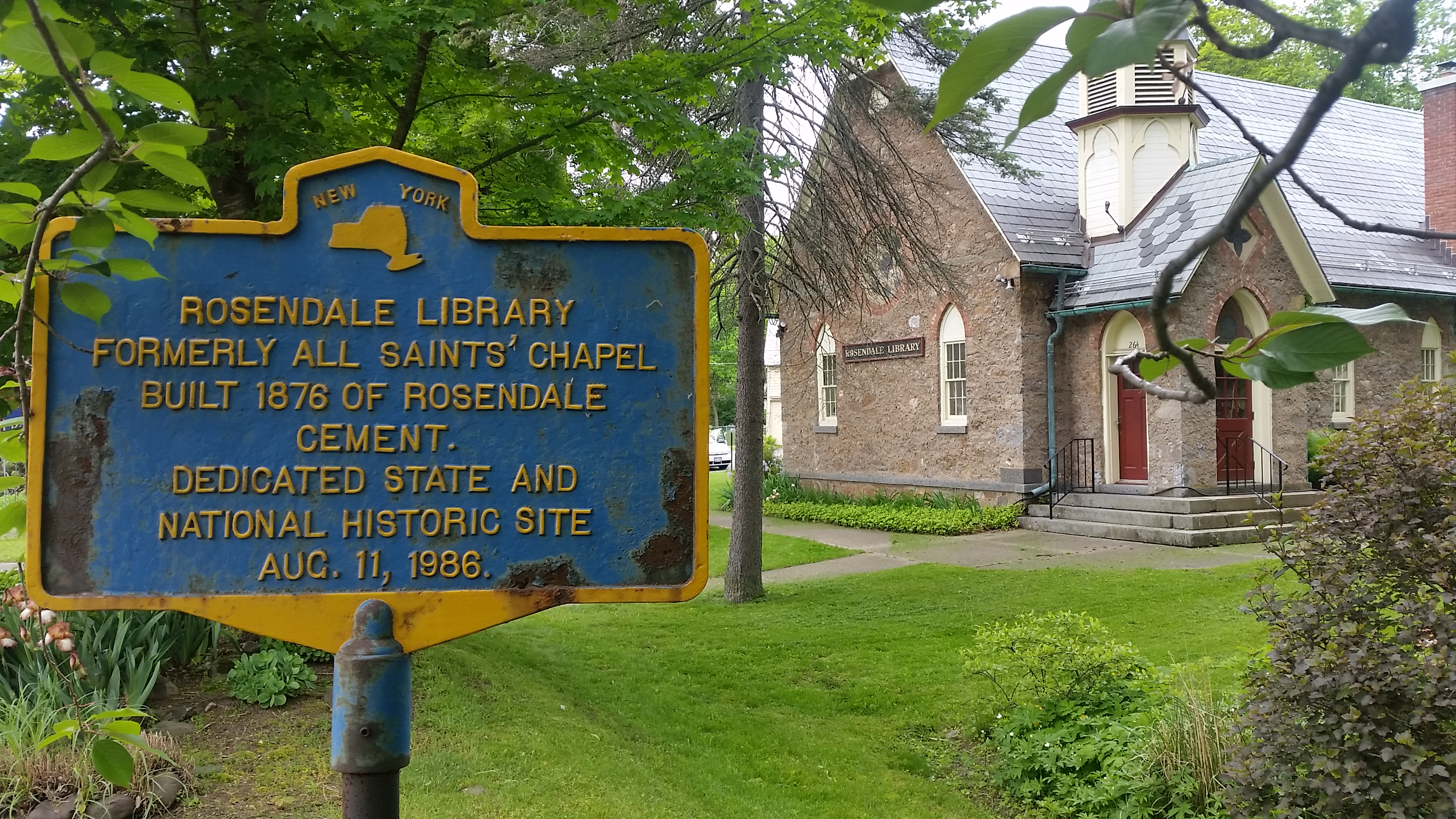 NY State historical marker for the Rosendale, NY library